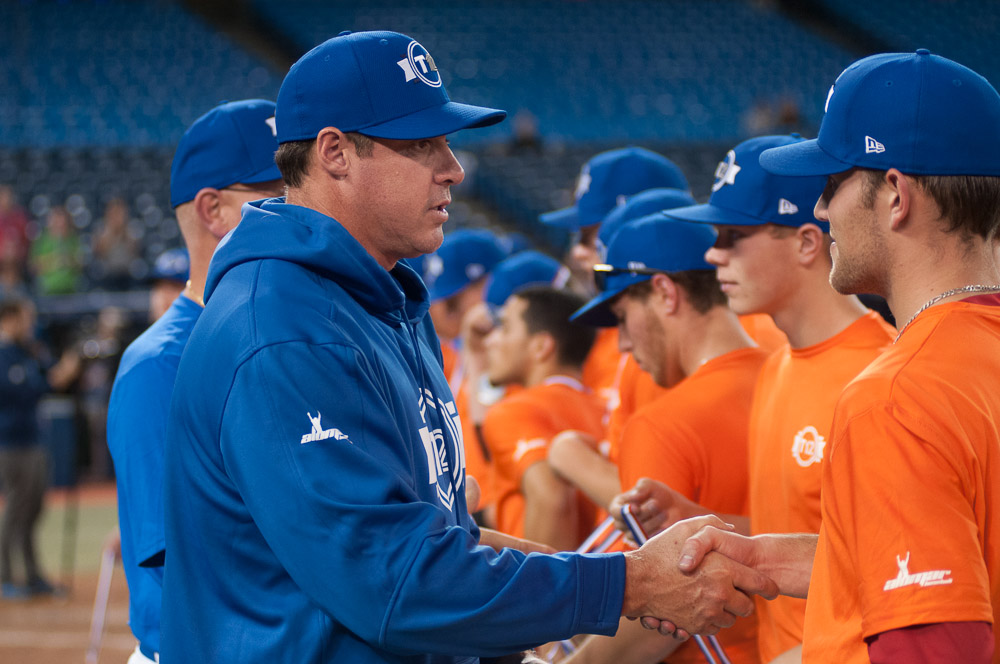 Denis Boucher awards BC Orange players